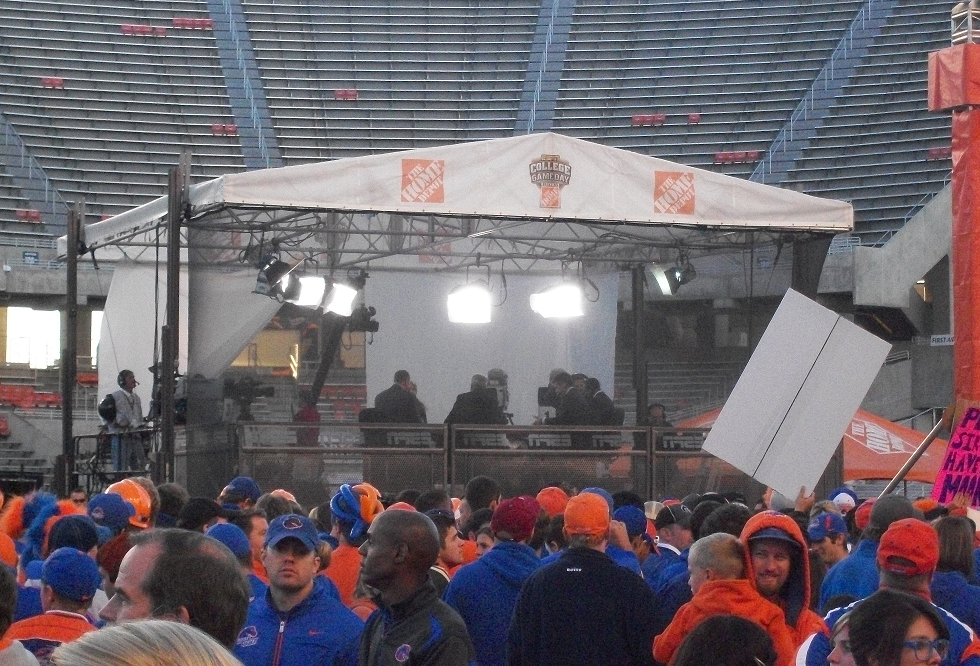 The set of College GameDay inside of Bronco Stadium during their live broadcast on September 25, 2010.